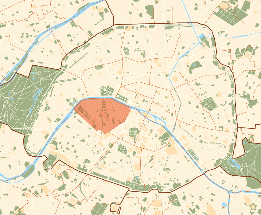 Plan by ThePromenader (own work)